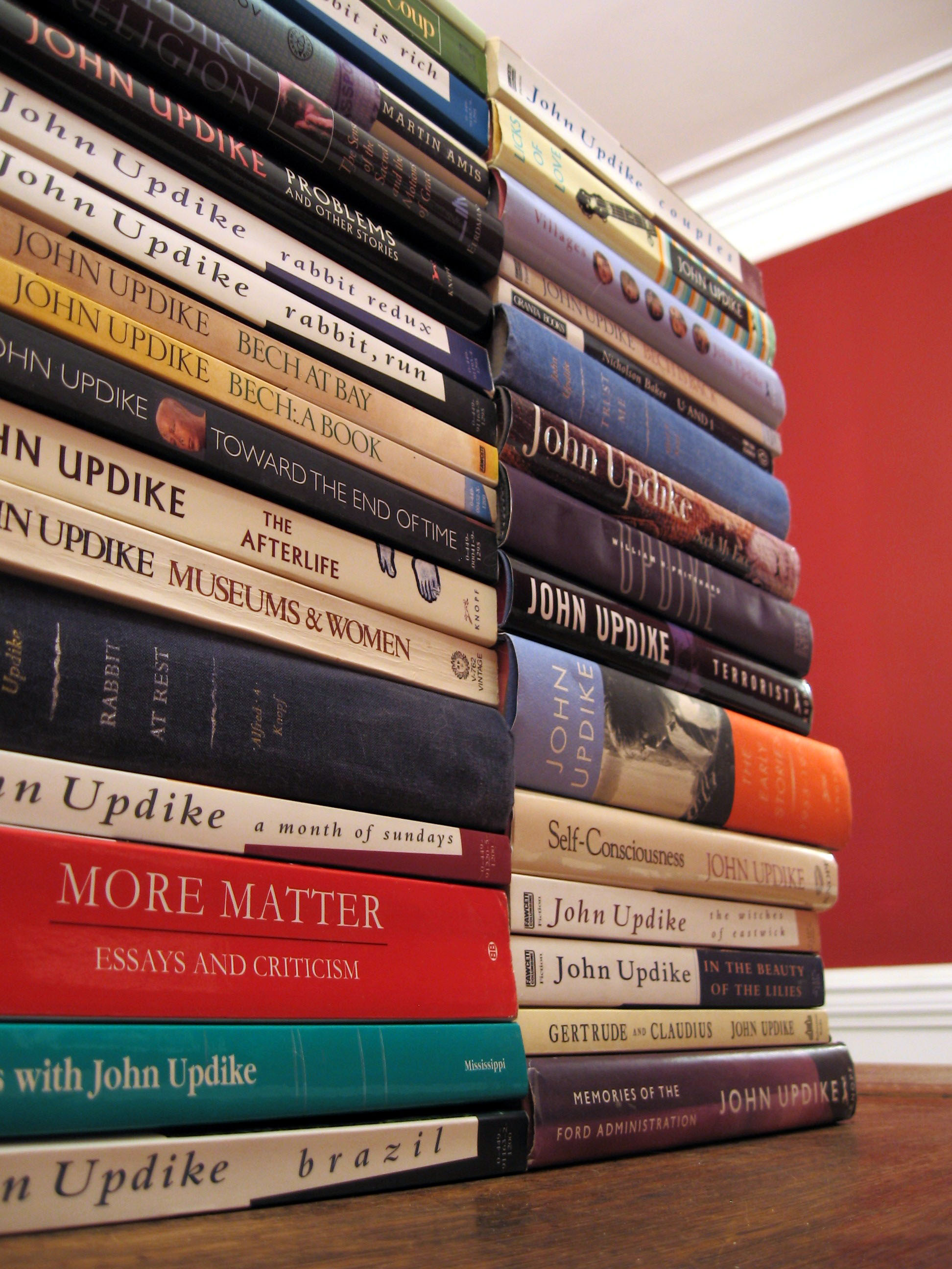 928 about John Updike. And 9,785 by John Updike. (More, if I could find several apparently-lost volumes. If I lent you an Updike at some point, you've had it too long and I would like it back now please.) To be able to count the number of pages of Updike that litter my house is possible only because I gave up cigarettes last year, and subsequently too my subscription to the New Yorker, because without smoking-and-reading time on the porch, my magazines were piling up unread. But while it lasted, how wonderful a surprise it always was, no matter how frequent, to flip open a fresh issue and find the name of my favorite author atop a long article somewhere toward the back, and wonder if he were the anonymous writer of a short piece nearer the front. To Dick Cavett, in 1992, Updike remarked: "Now waves of disgust come over me when I see all the books I've written, but I can't make myself stop. I'm like that serial killer out in Chicago years ago who scrawled in the bathroom, 'Will somebody please stop me.'"